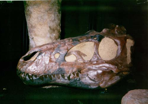 Skull of Nanotyrannus from National Museum of Natural History in Paris